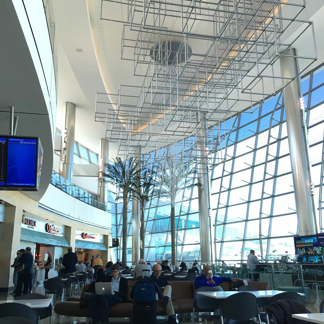 Indoor view of Sunset Cove in Terminal 2 of the San Diego International Airport, in California.